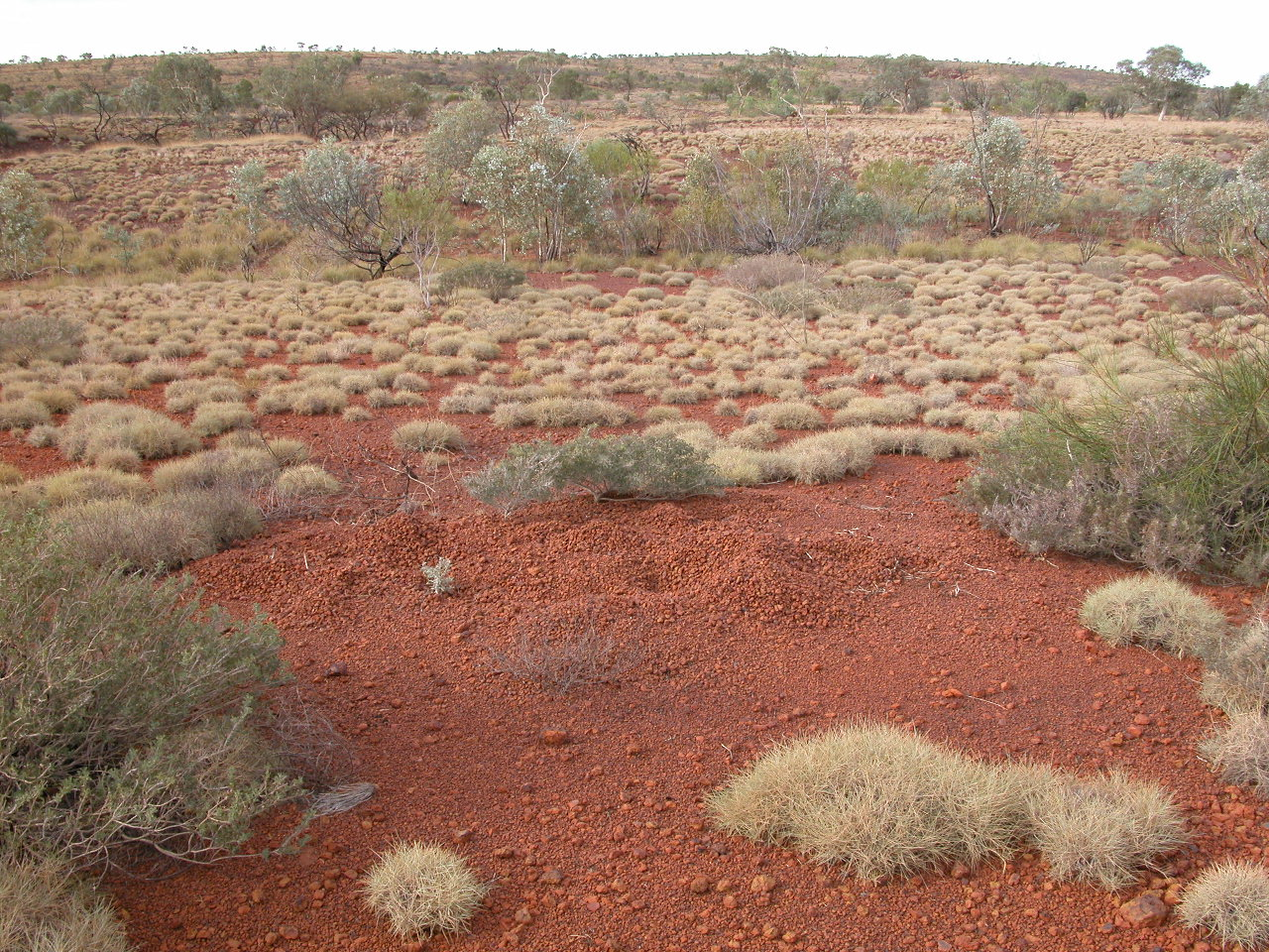 Mound of Western Pebble-Mound Mouse (Pseudomys chapmani) amongst Triodia hummocks in the Pilbara region